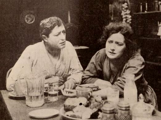 Still from the American drama film Just a Woman (1918) with an unidentified actor (likely Lee Baker (1875 – 1948)) and Charlotte Walker, on page 24 of the April 6, 1918 Exhibitors Herald.